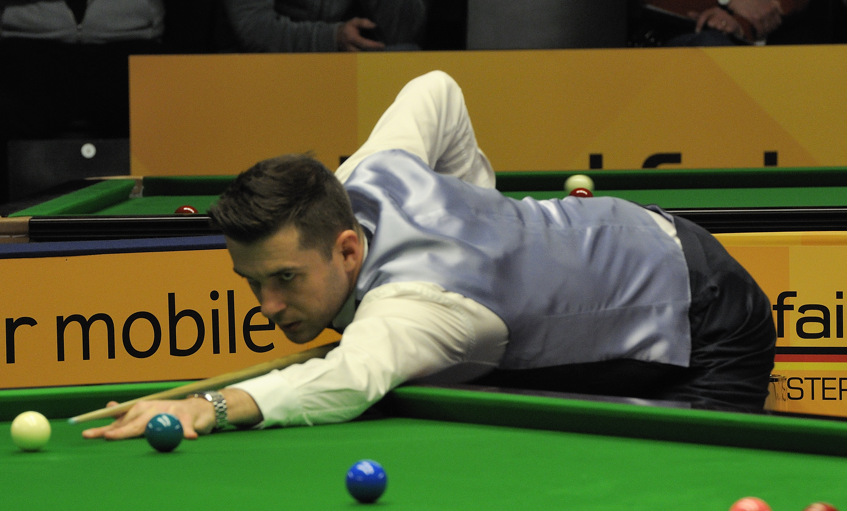 Picture taken in Berlin during the Snooker German Masters in 2013. Mark Selby.